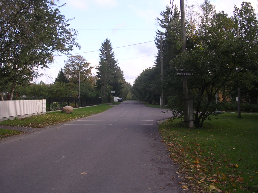 Viimsi str, Merivälja